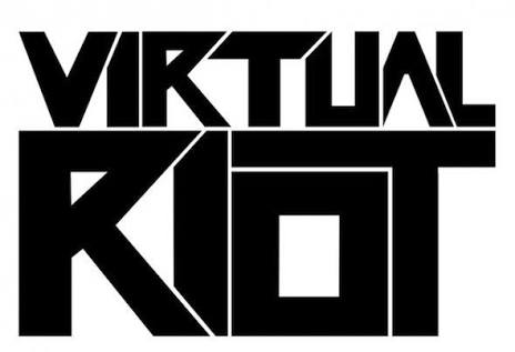 Logo of EDM artist Virtual Riot.